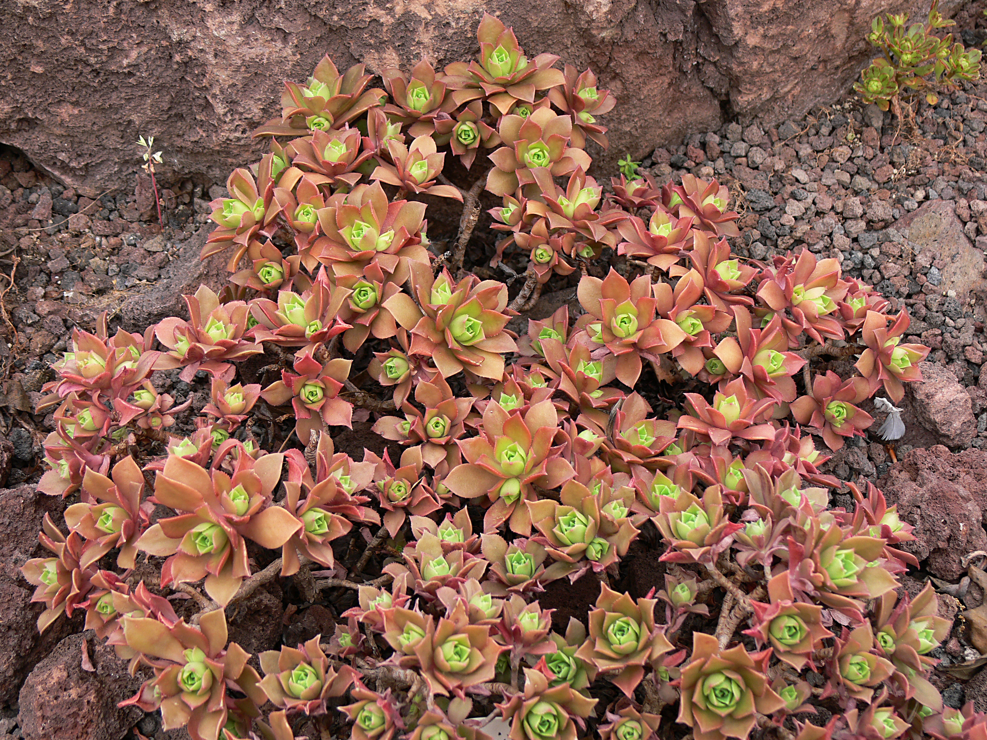 Aeonium decorum (Christ) WEBB ex BOLLE, Crassulaceae, native to the Canary Islands, Botanical Garden Krefeld, Germany